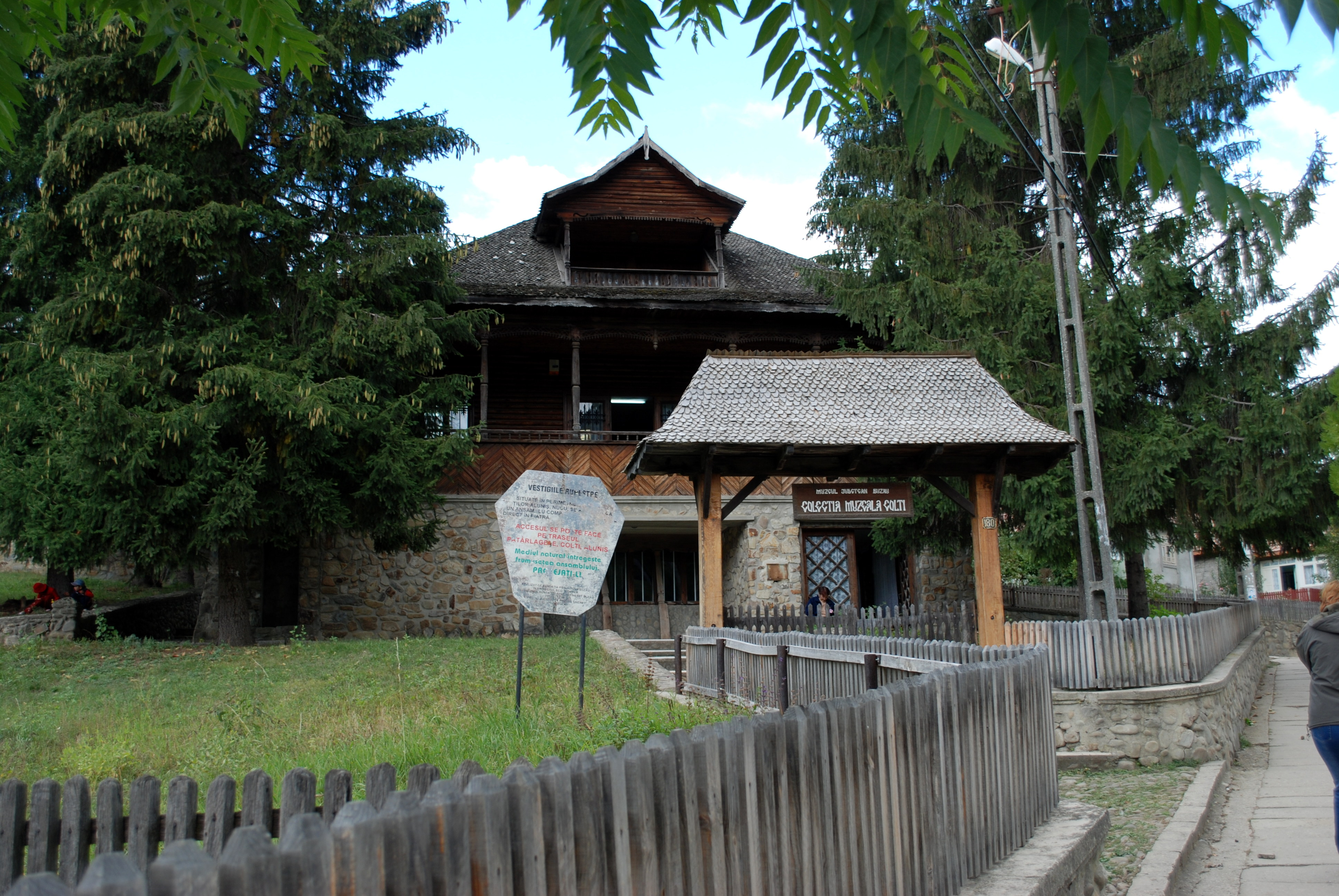 The Amber Museum in Colţi, Buzău, Romania